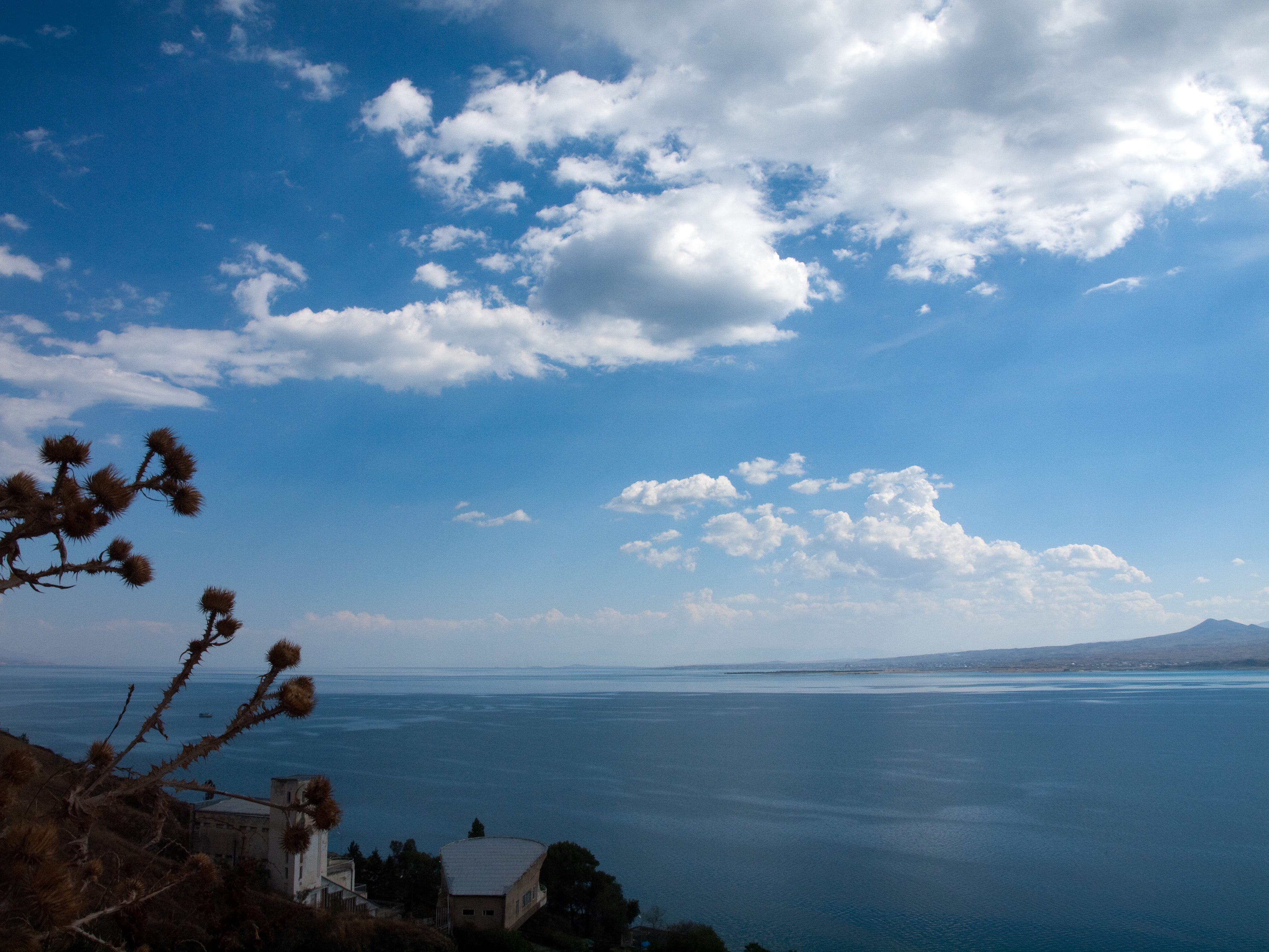 Armenia - Day 4 - 21 September 2010. Almost 2,000 metres above sea level, Lake Sevan is a beautiful blue lake. View from Sevanavank.